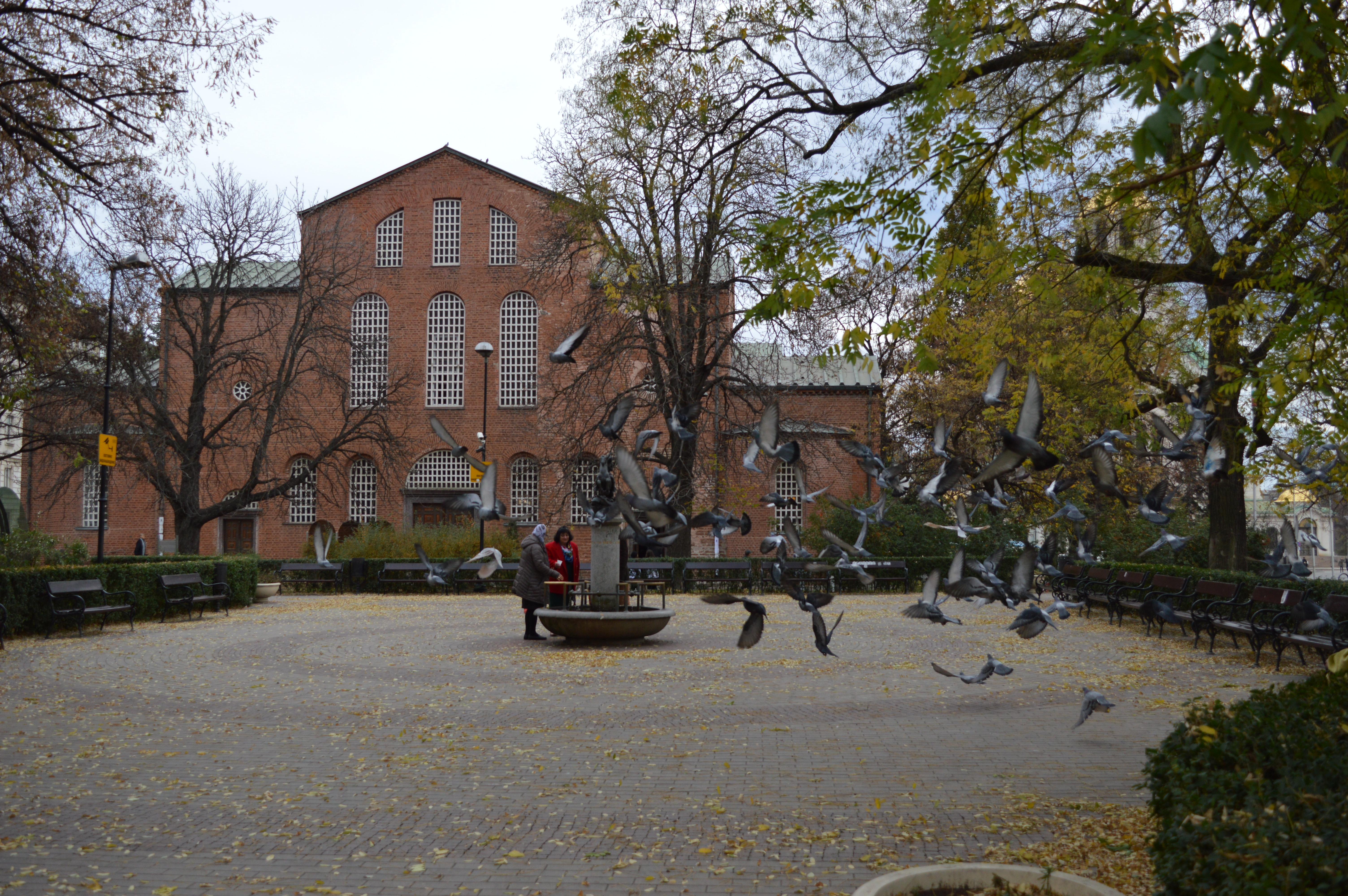 St. Sofia Church, Sofia, Bulgaria